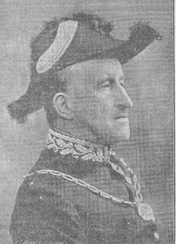 Mayor of Vught